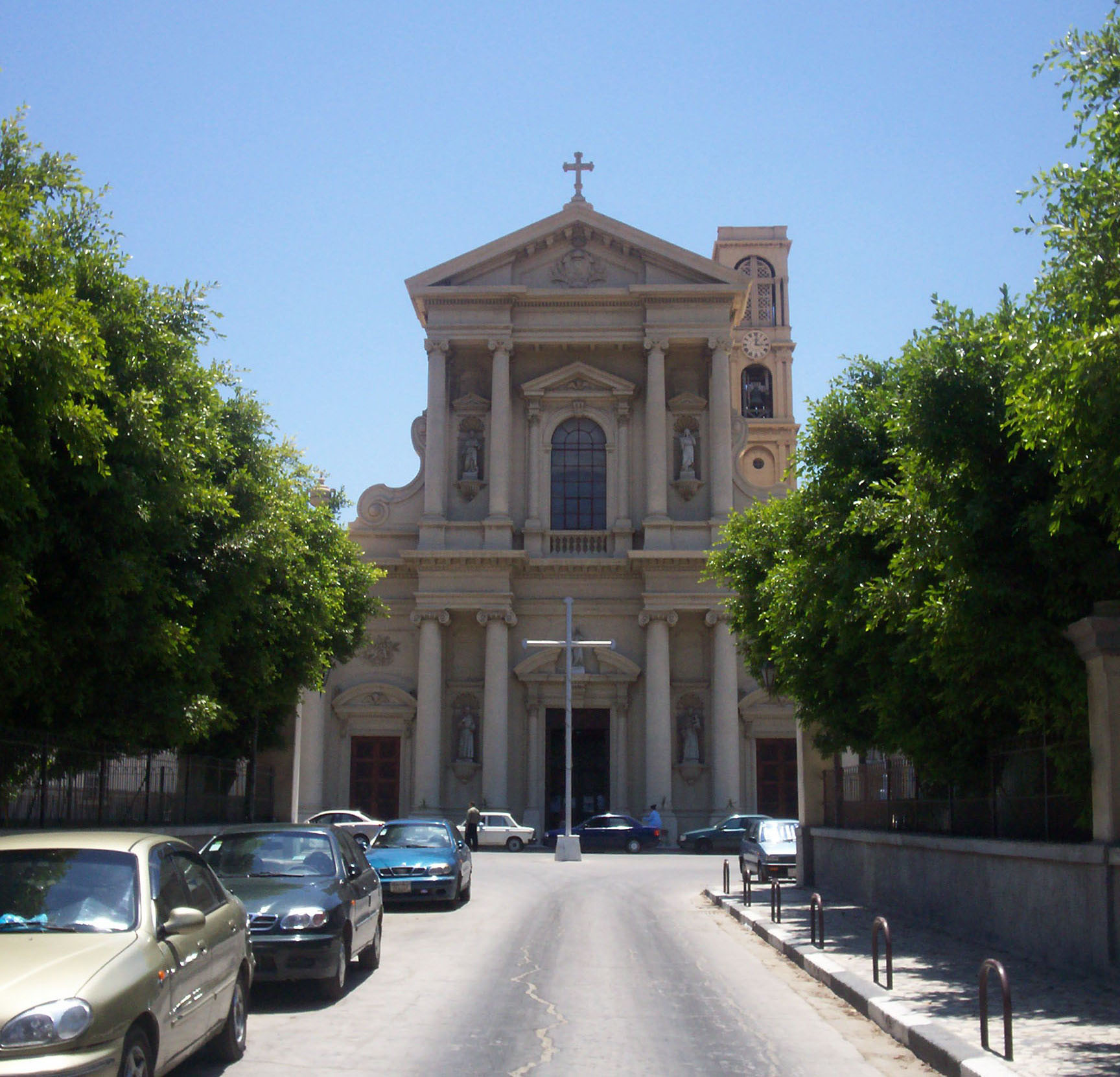 Saint Catherine church, Alexandria Egypt